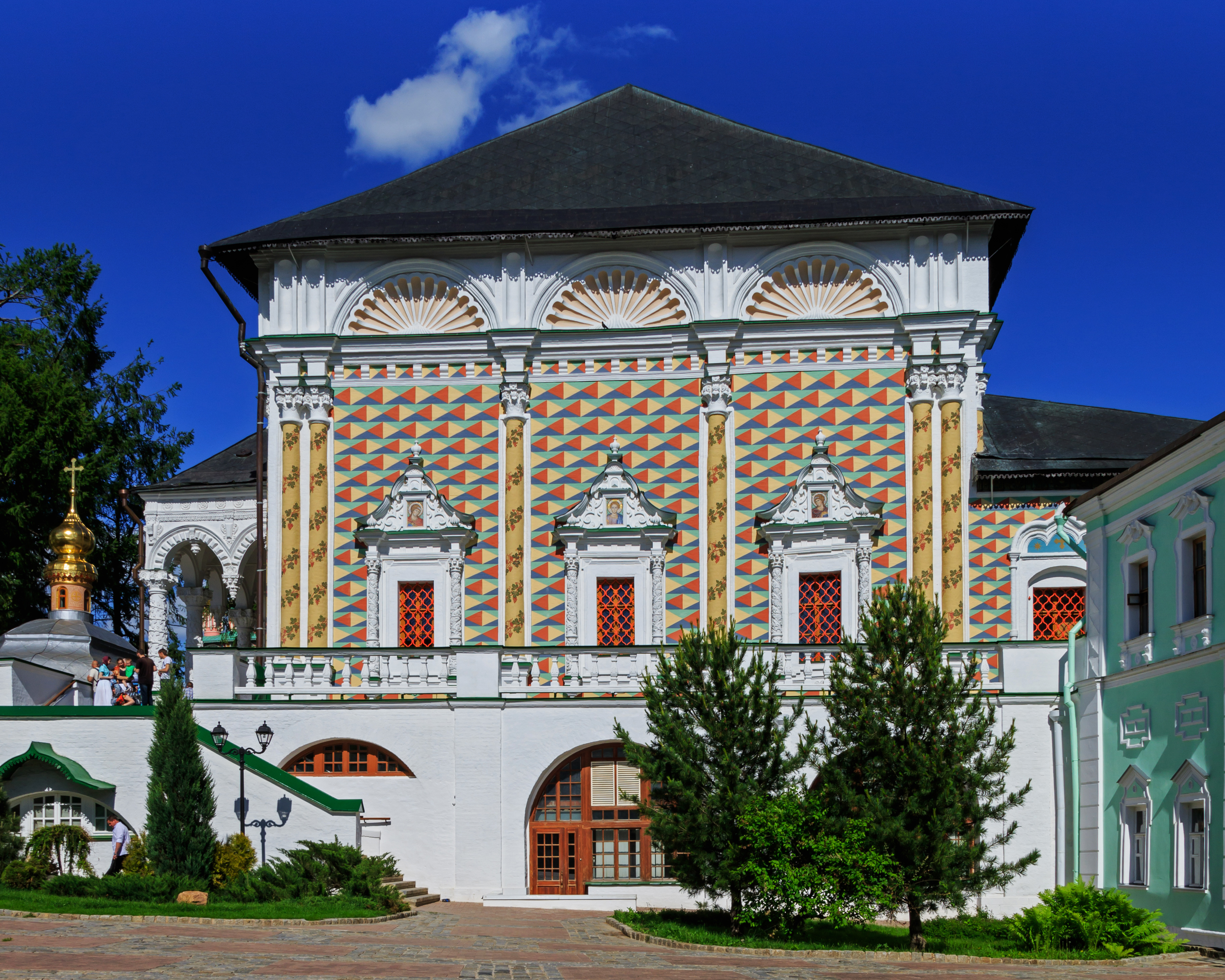 Trinity Lavra of St. Sergius in Sergiev Posad, Moscow Oblast, Russia: Refectory (St. Sergius of Radonezh Church)